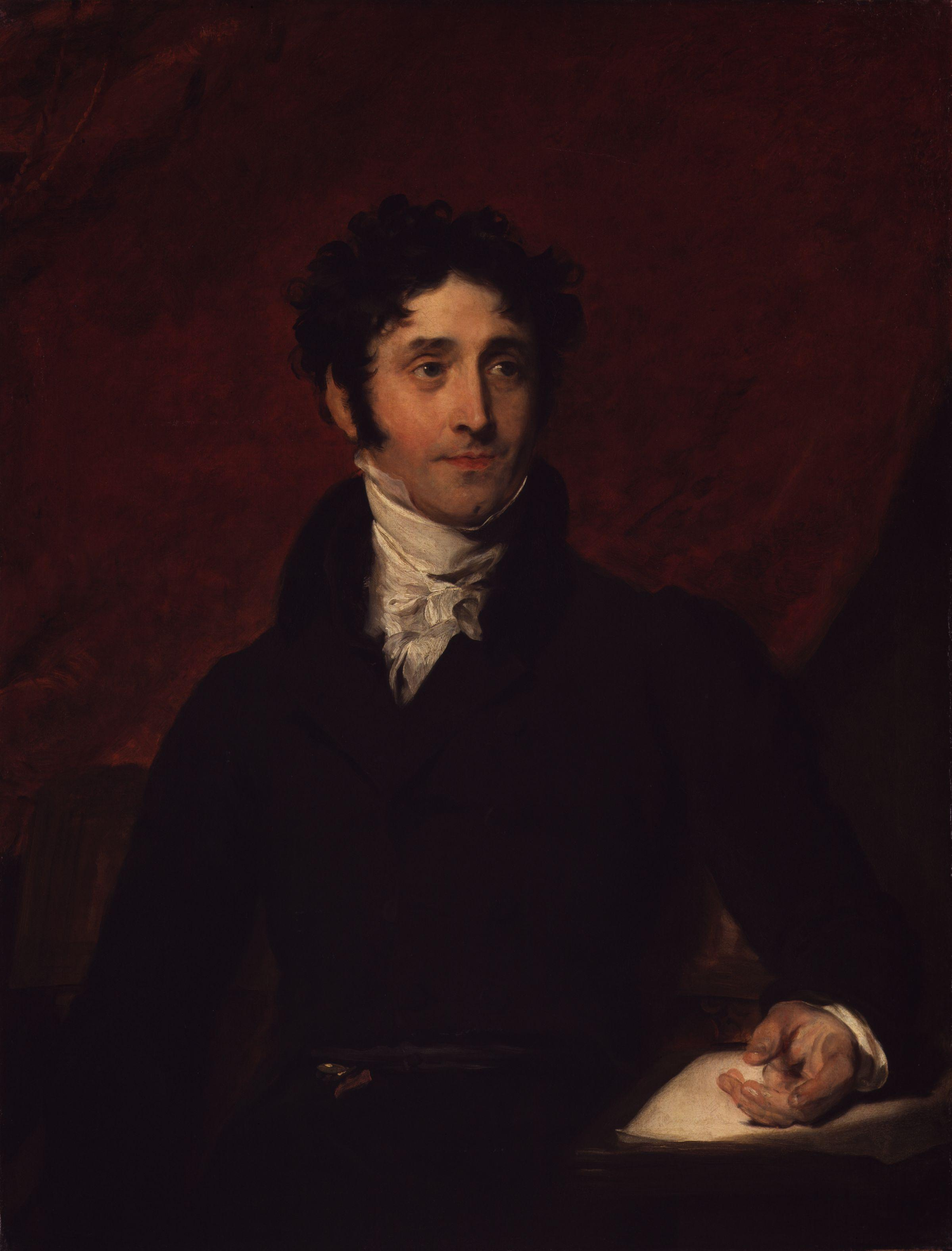 Thomas Campbell, by Sir Thomas Lawrence (died 1830), given to the National Portrait Gallery, London in 1865. All images in this batch have been confirmed as author died before 1939 according to the official death date listed by the NPG.